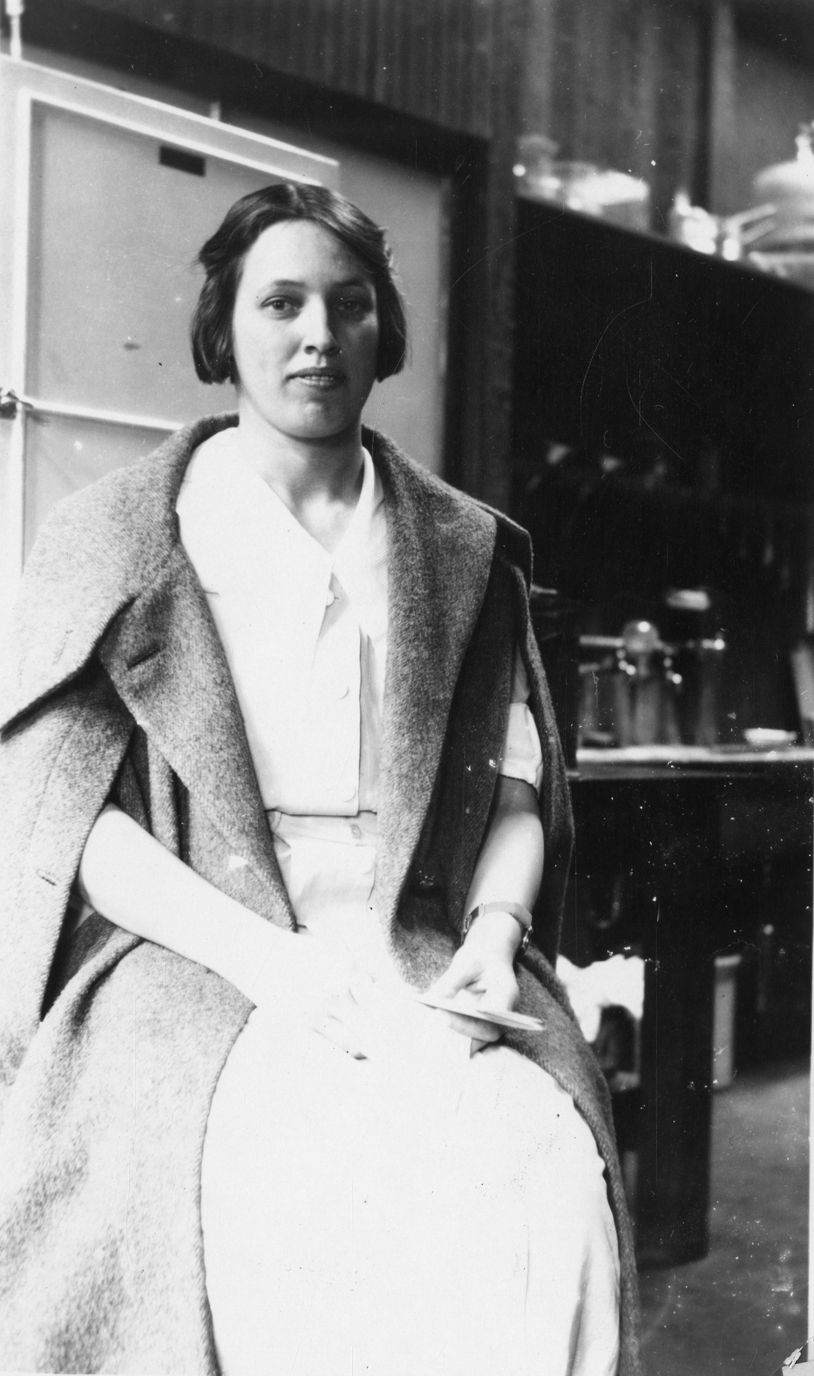 Creator: Scott, Julian P Subject: Bishop, K. Scott (Katharine Scott) 1889-1976 Johns Hopkins University School of Medicine Type: Black-and-white photographs Topic: Anatomy Vitamin E Women scientists Local number: SIA Acc. 90-105 [SIA2009-3085] Summary: Trained as an anatomist, Katherine J. Scott Bishop (1889-1976) graduated from Johns Hopkins University School of Medicine in 1915 and, working with Herbert M. Evans, discovered the importance of Vitamin E Cite as: Acc. 90-105 - Science Service, Records, 1920s-1970s, Smithsonian Institution Archives Persistent URL:Link to data base record Repository:Smithsonian Institution Archives View more collections from the Smithsonian Institution.